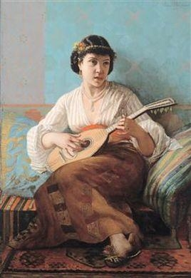 Girl playing a mandolin